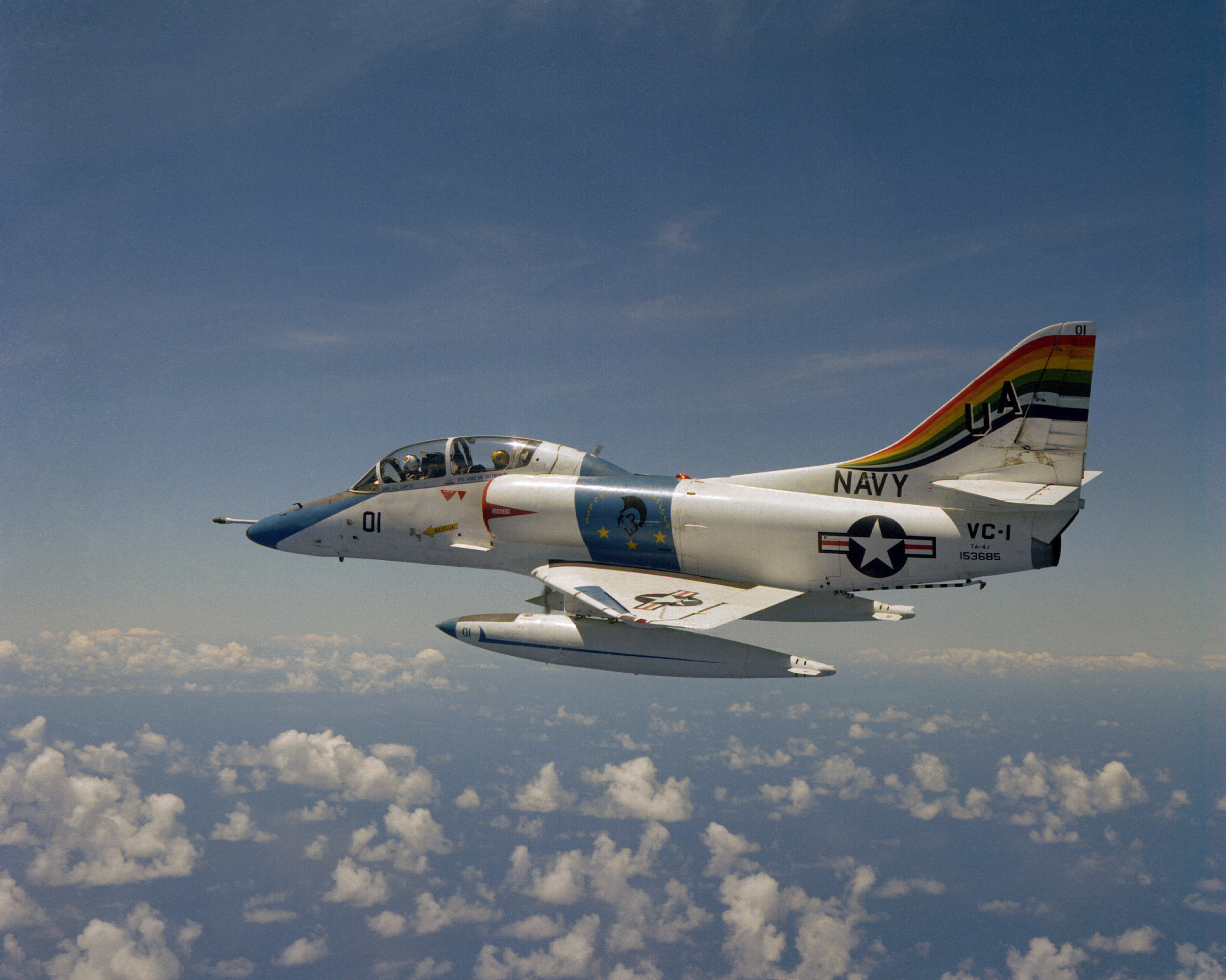 Air-to-air left view of a Douglas TA-4J Skyhawk aircraft (BuNo 153685) from Fleet Composite Squadron 1 (VC-1) as it is piloted by CDR Davis, the squadron's executive officer. Oahu, Hawaii, USA